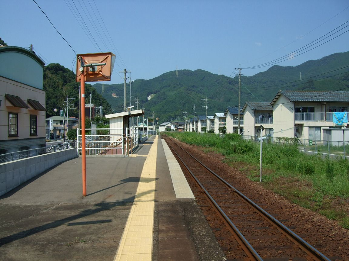 Iwaya Station, Karatsu Line, JR Kyushu.